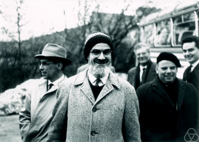 Professor George Piranian of the University of Michigan in the center. Another person is named Pfleger. "The Oberwolfach Photo Collection is based on Prof. Konrad Jacobs' (Erlangen) large collection of photographs of mathematicians from all over the world. In the 1950's Prof. Jacobs started to make copies of the photographs he had taken and donated these copies to the MFO. In 2005 he transferred his whole collection completely with all rights to the MFO."